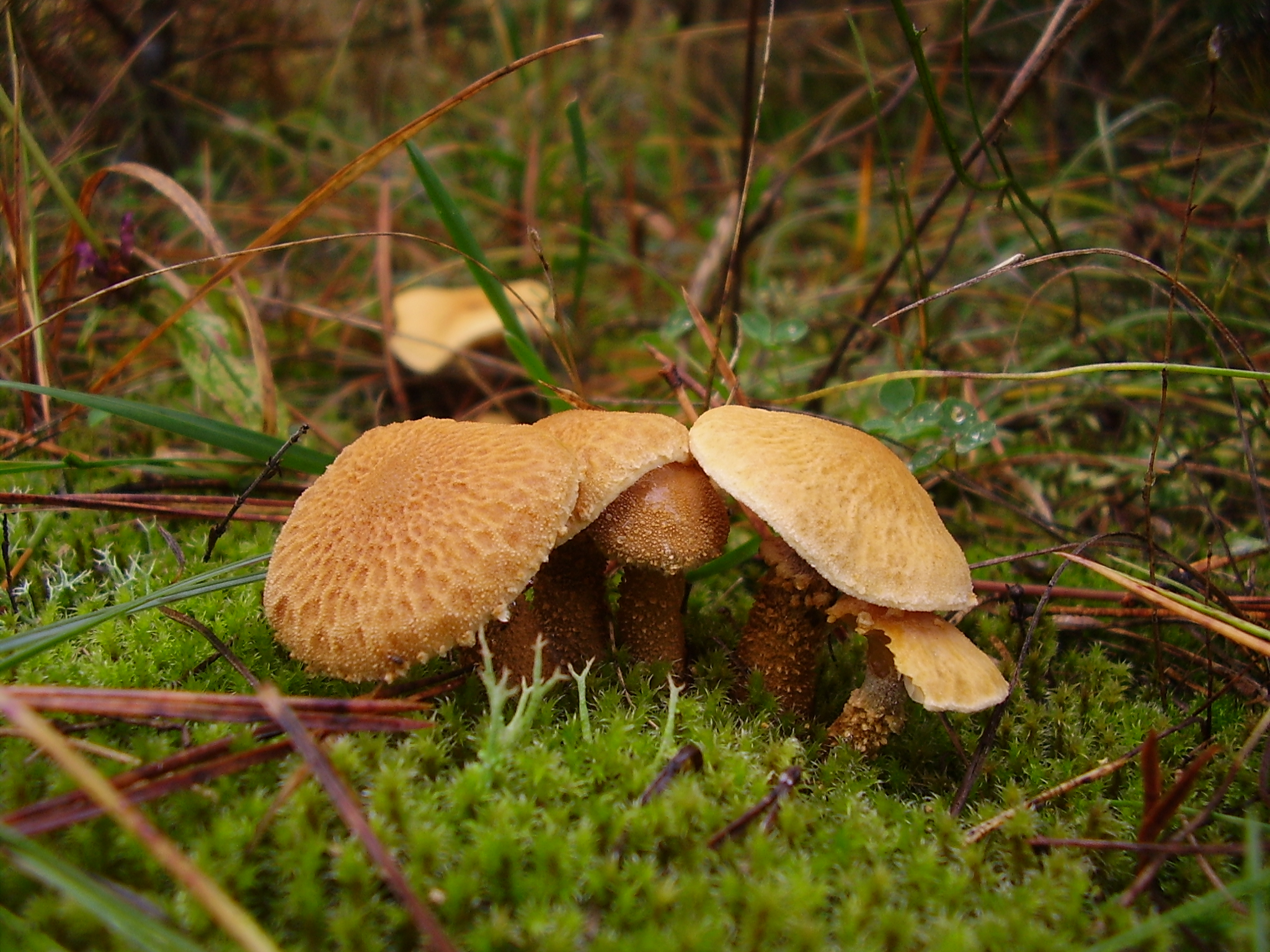 Cystoderma amianthinum in coniferous forest in western Stara Planina mountains, Bulgaria.